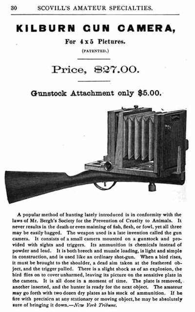 The Kilburn Gun Camera was invented by Benjamin W. Kilburn to take pictures among the White Mountains and was manufactured by Scovill Mfg. Co. from approximately 1882 to 1886. It consisted of a small camera mounted on a gun-stock and provided with sights and triggers. The camera was constructed of mahogany with a cherry base, a black fabric bellows and brass lacquered hardware. Rear focus adjustment was accomplished by way of a rack and pinion or manual pull. Was available in 4x5 size only. Priced in 1883 at $27 for the outfit or $5 for the gun-stock.